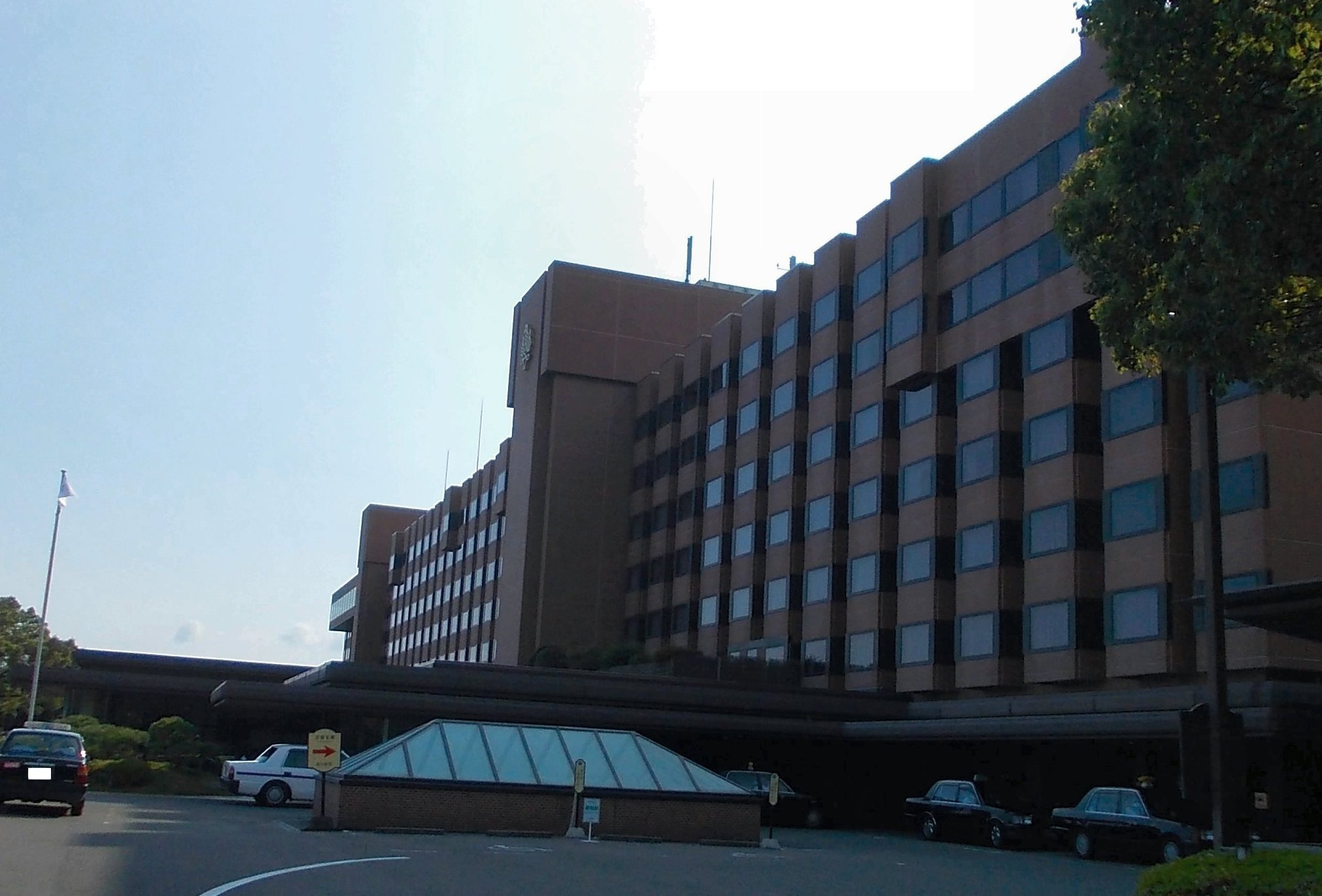 Shiroyama Kankō Hotel, Kagoshima, Japan